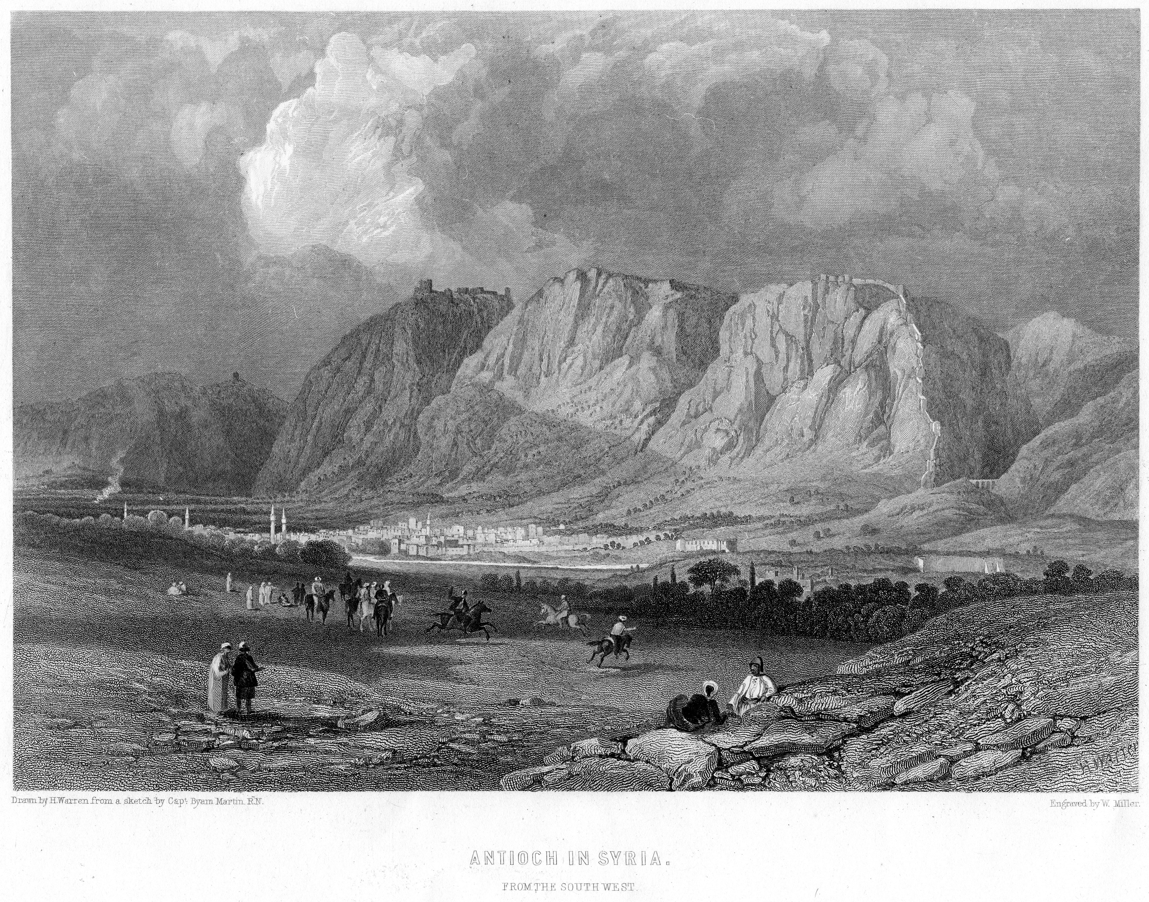 Antioch in Syria from the North West engraving by William Miller after H Warren from a sketch by Capt. Byam Martin R.N. published in The Imperial Bible Dictionary - Historical, Biographical, Geographical and Doctrinal - Illustrated by numerous engravings - Including the natural history, antiquities, manners, customs, and religious rites and ceremonies mentioned in the scriptures, and an account of the several books of the old and new Testaments. Patrick Fairbairn. London: Blackie and Son, Paternoster Row 1866